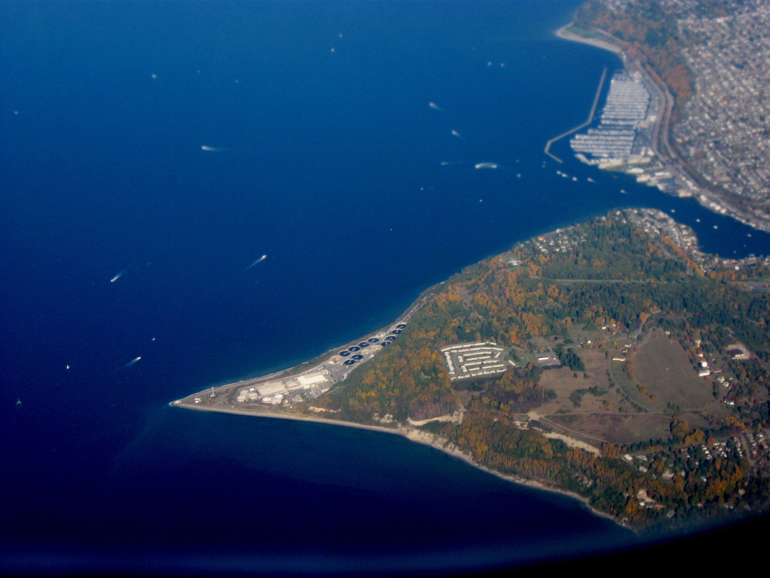 Aerial view of Magnolia peninsular neighborhood in Seattle, facing north north west. Left is Puget Sound, center right is Lake Washington Ship Canal, top right is Ballard. Bottom left (on the pointy bit) is LH and Sewer Plant, forested area is Discovery Park, brown area is Fort Lawton Military Reserve. Taken by myself from a commercial airliner window.